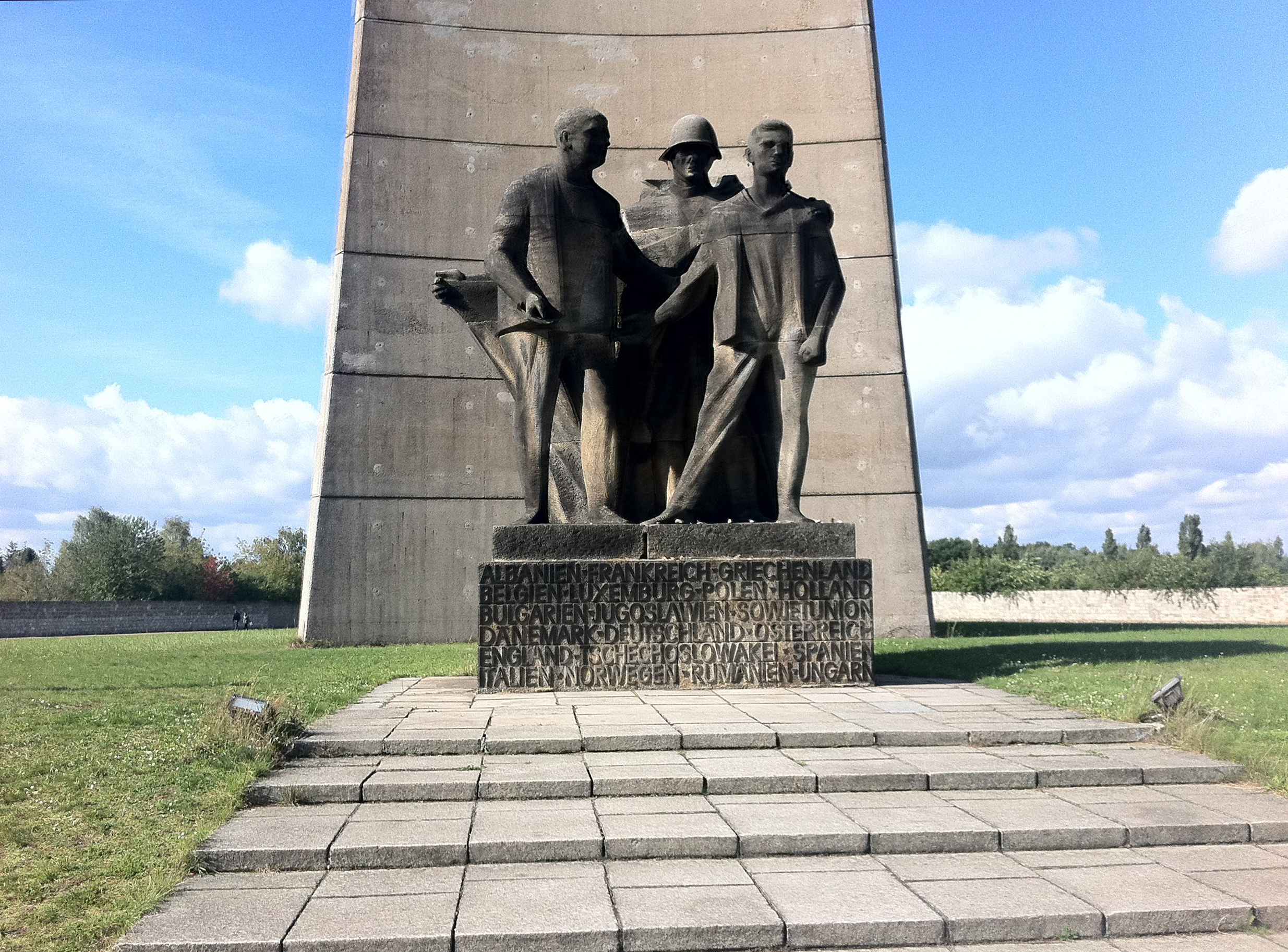 The memorial statue at Sachsenhausen Concentration Camp, at the foot of the memorial obelisk.